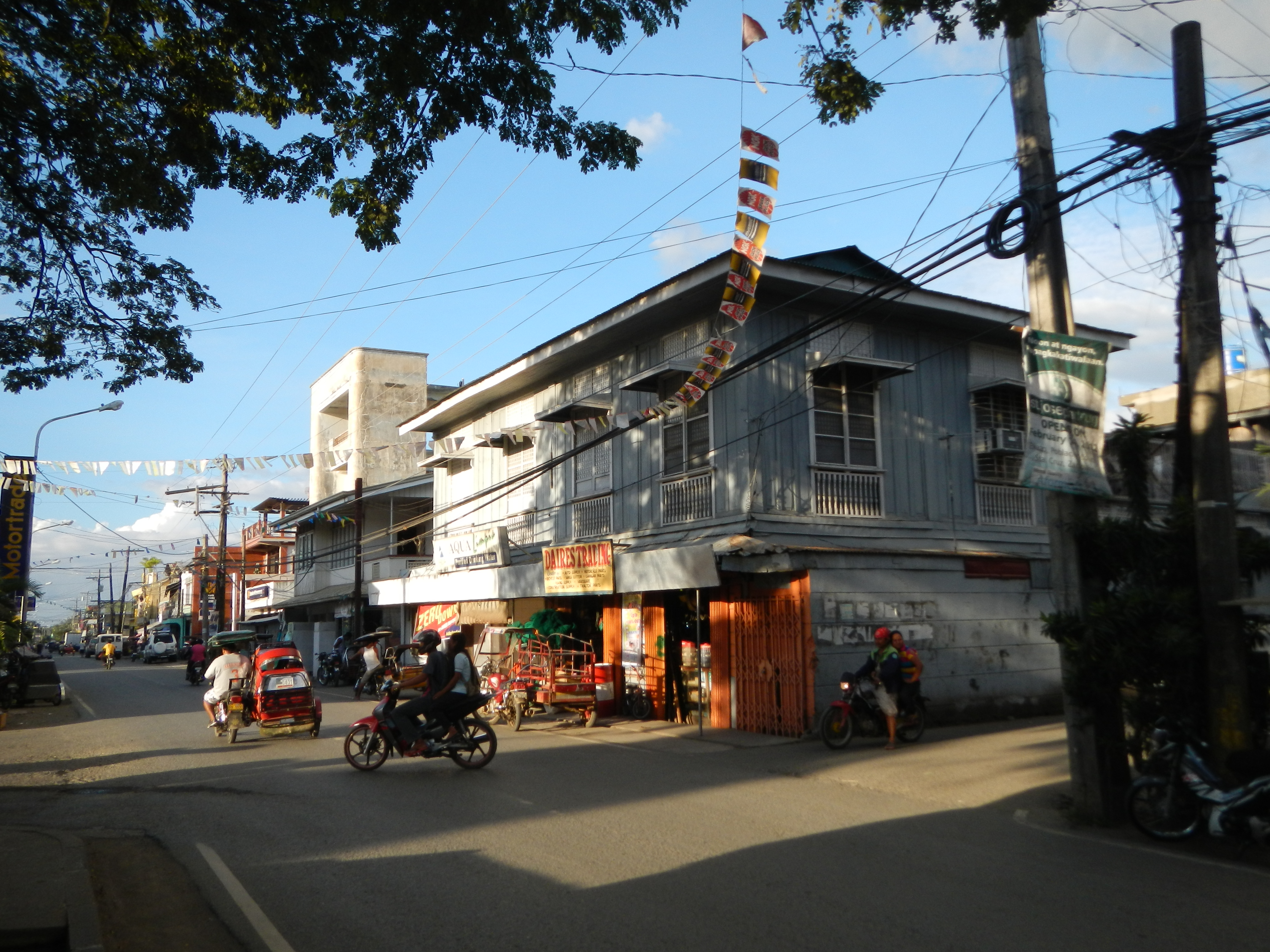 Upload Wizard Panorama photos -- (General description, 3-dimension angle by angle photography of this town, church & landmarks) --Santa Cruz, Zambales[1] [2] (Land Area: 438.46 km² ZIP Code: 2213 Coordinates: 15°46'23"N 120°2'38"E) - the sunset, burning red sun bathing the Santa Cruz beaches, shores, upon the deep blue ocean, surrouded by the green virgin plants, shrubs, coconut trees and tropical trees, and afar but not so far, where one rides the tricycle to go to this beach, is the Alfonso C. Tongson Municipal Park in the center of Town Proper, downtown.